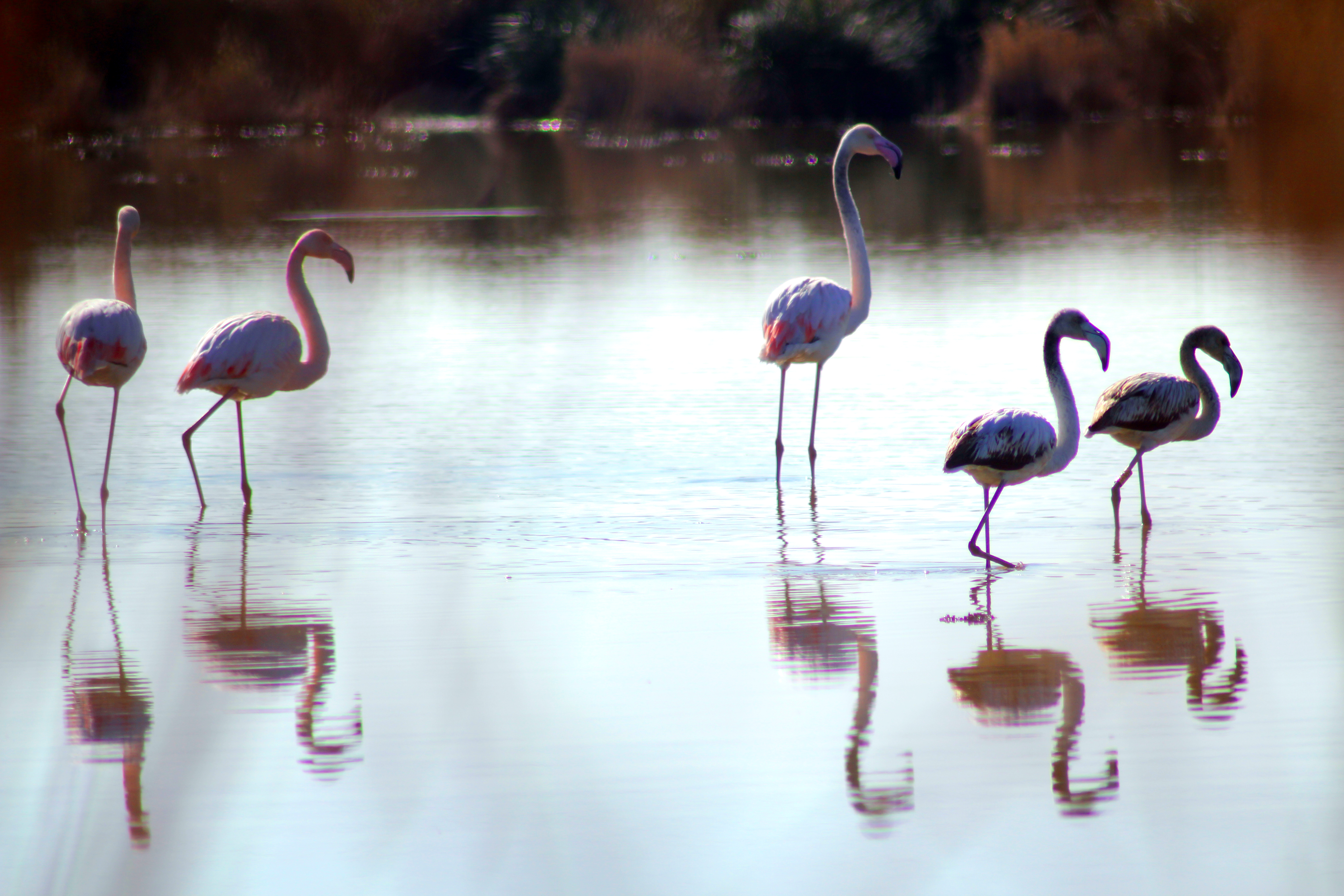 Flamingo at Moulouya